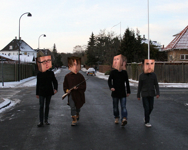 Apparatjik